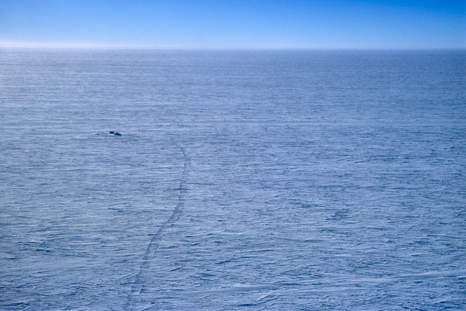 Mid-Point Charlie seen from the air, high Antarctic Plateau